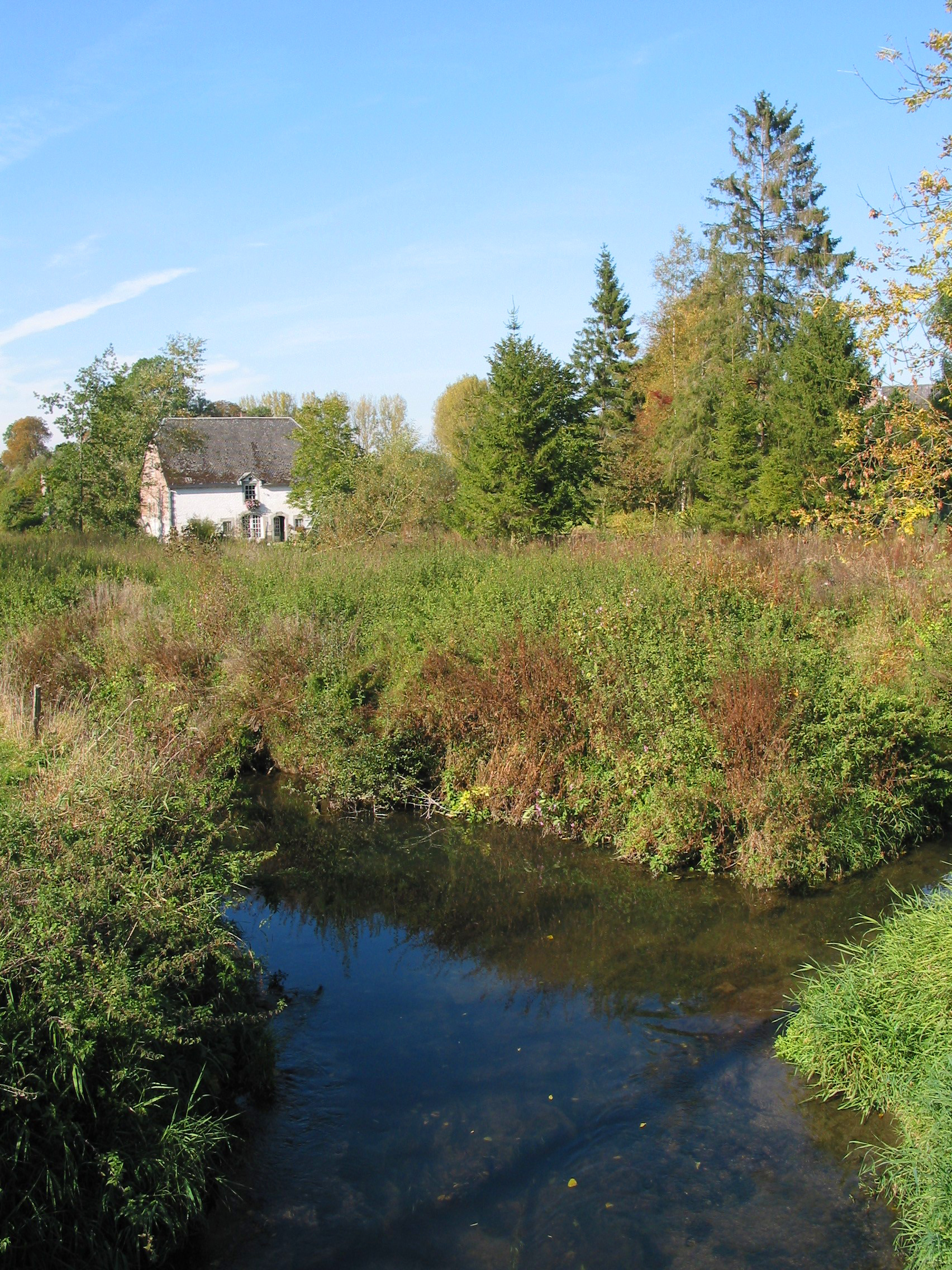 Braives (Belgium), the Mehaigne river and the old watermill.